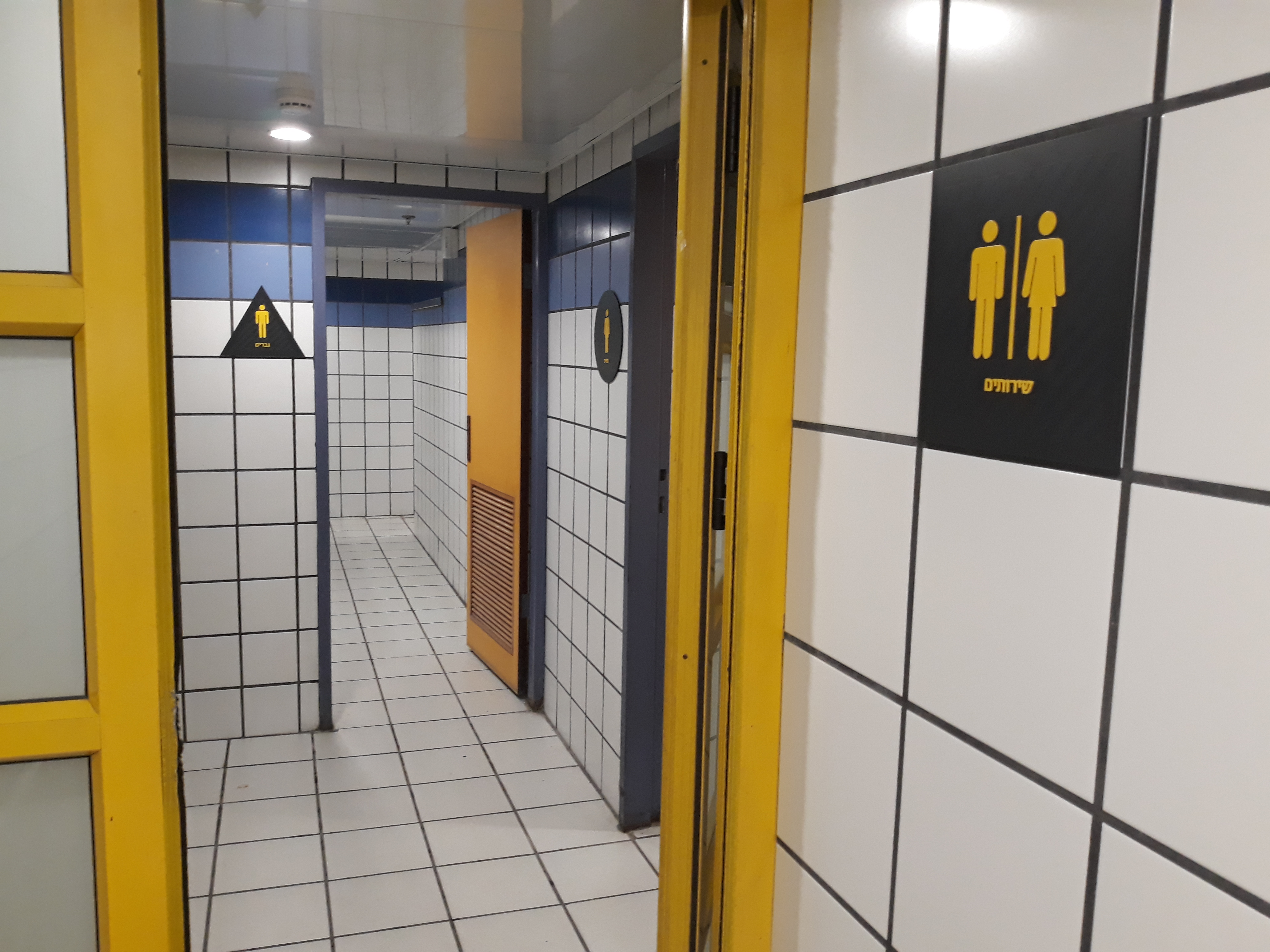 Carmelit subway in Haifa after its reopening in 2018